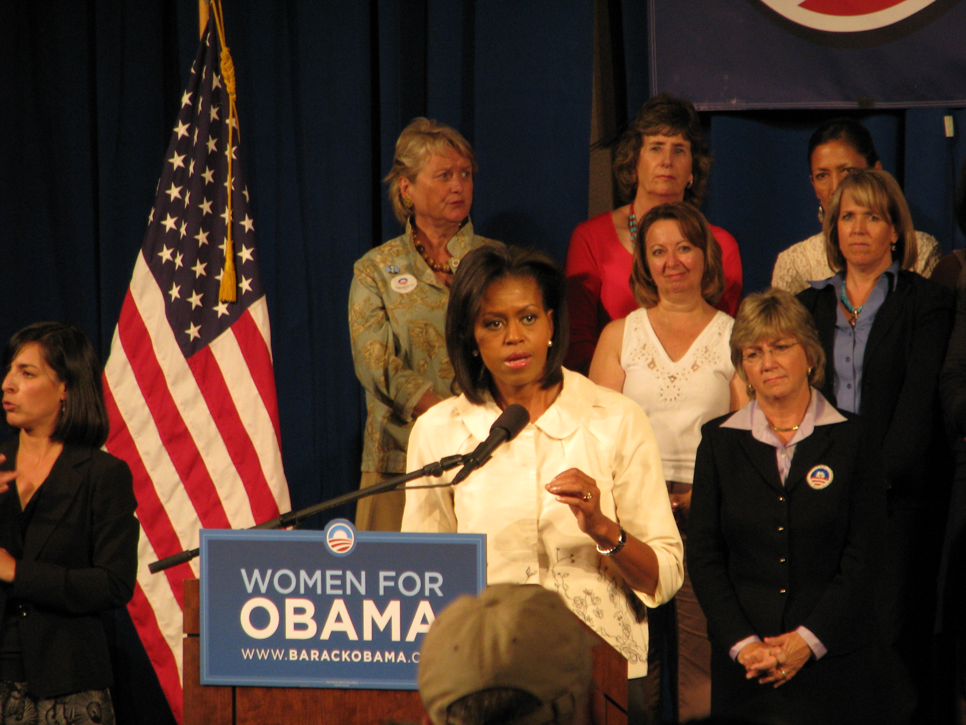 Michelle Obama at the University of New Mexico on September 4, 2008